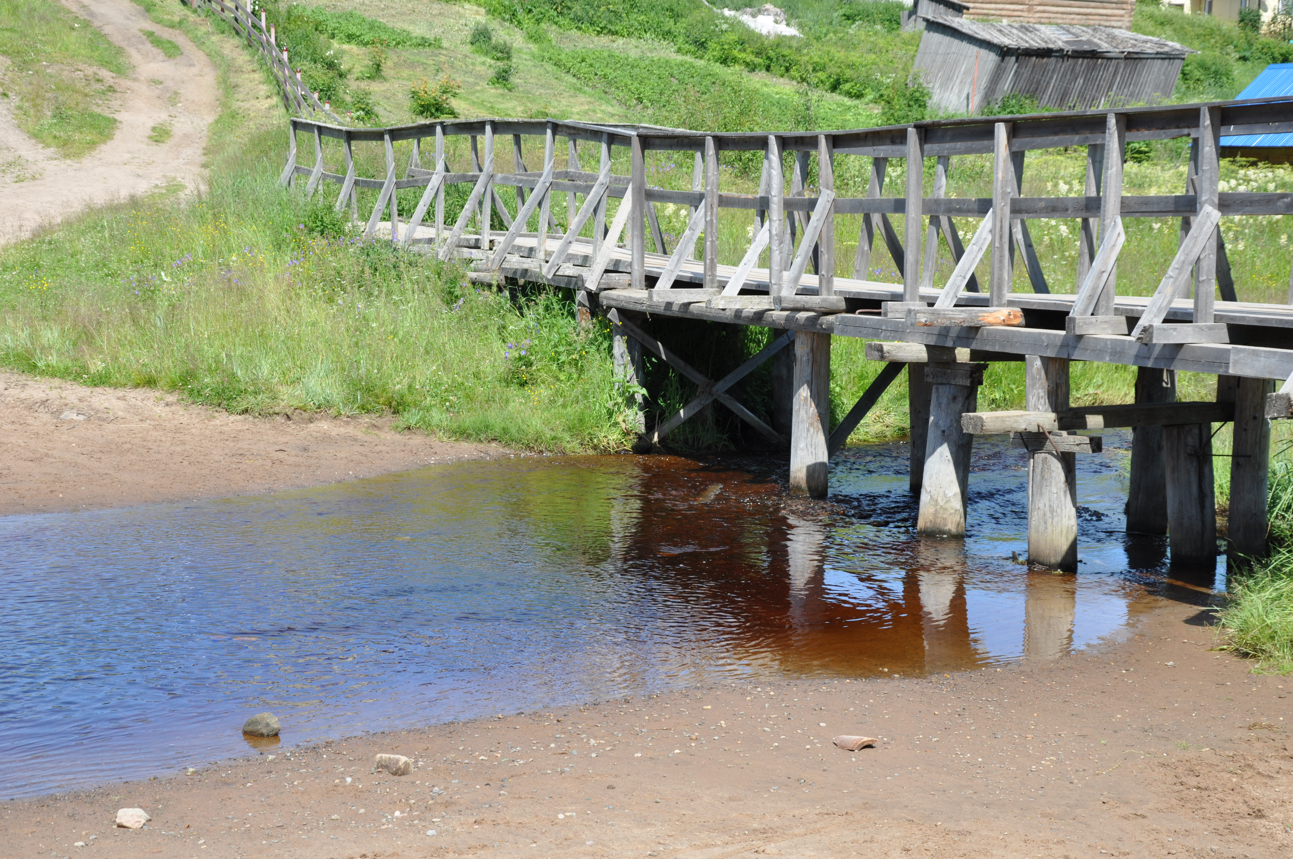 Мост через Нёноксу